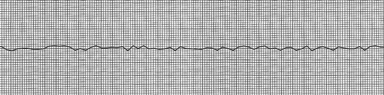 The patient is a 42 y/o male who suddenly collapsed while running. Per EMS: Patient noted to be pulseless, asystole on monitor. ACLS was initiated, the patient was RSI’d. CPR is in progress upon arrival. Airway is intact. No pulse on initial check, and you obtain this monitor strip: File:UOTW 37 - Ultrasound of the Week 2.jpg File:UOTW 37 - Ultrasound of the Week 3.jpg You also obtain the following echocardiogram during this pulse check.